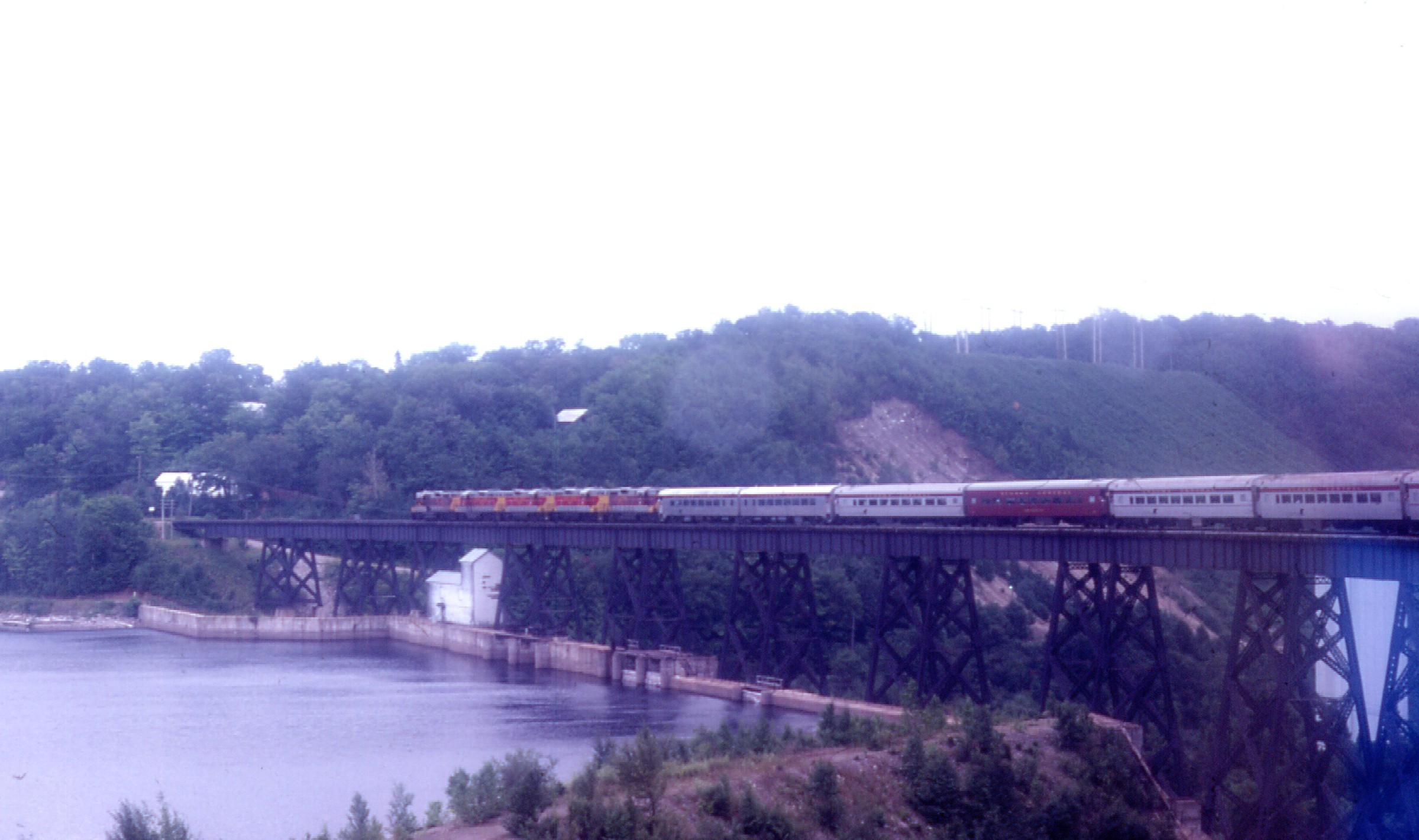 Heading south towards Sault Ste. Marie, ON, the train crosses the curved trestle at the Montreal River hydro dam. Note five locomotives are required to haul this very long train up and down the grades.